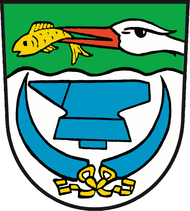 Coat of Arms of Hennigsdorf